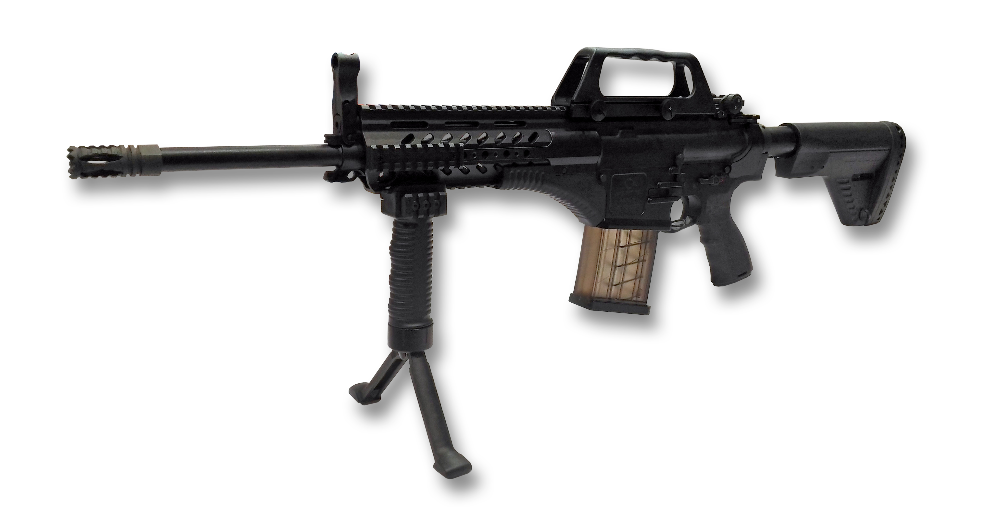 A 7.62 x 51 mm caliber MPT-76 Assault Rifle made by the Turkish company, MKE. Photo taken during the 2016 Asian Defence and Security (ADAS) Trade Show at the World Trade Center in Pasay, Metro Manila